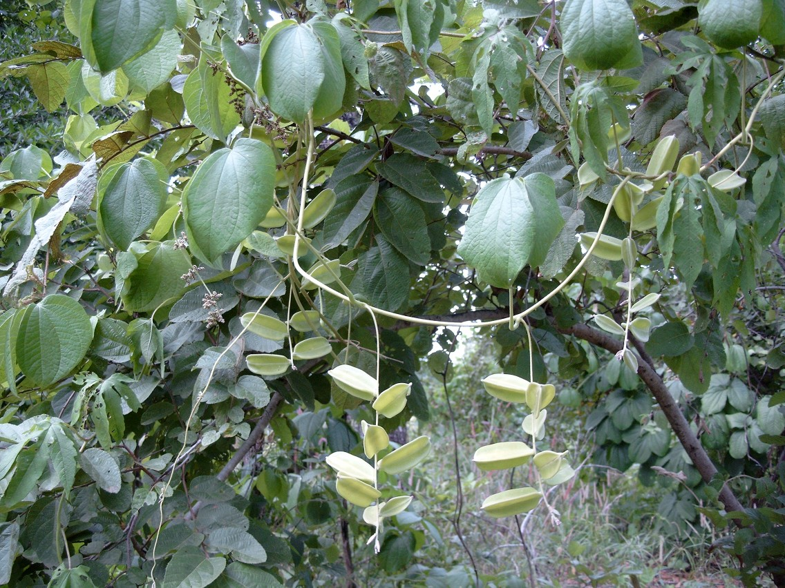 Dioscorea cf. dumetorum. Wild yam species in Reserve de Pama, Burkina Faso